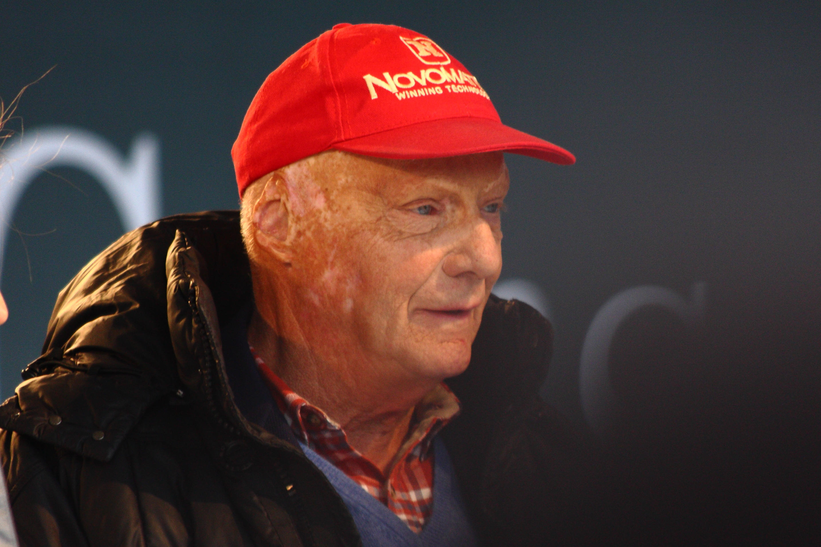 Niki Lauda at Stars and Cars 2014